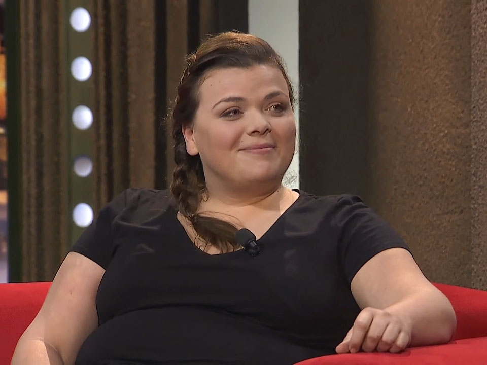 Czech actress Lucie Polišenská